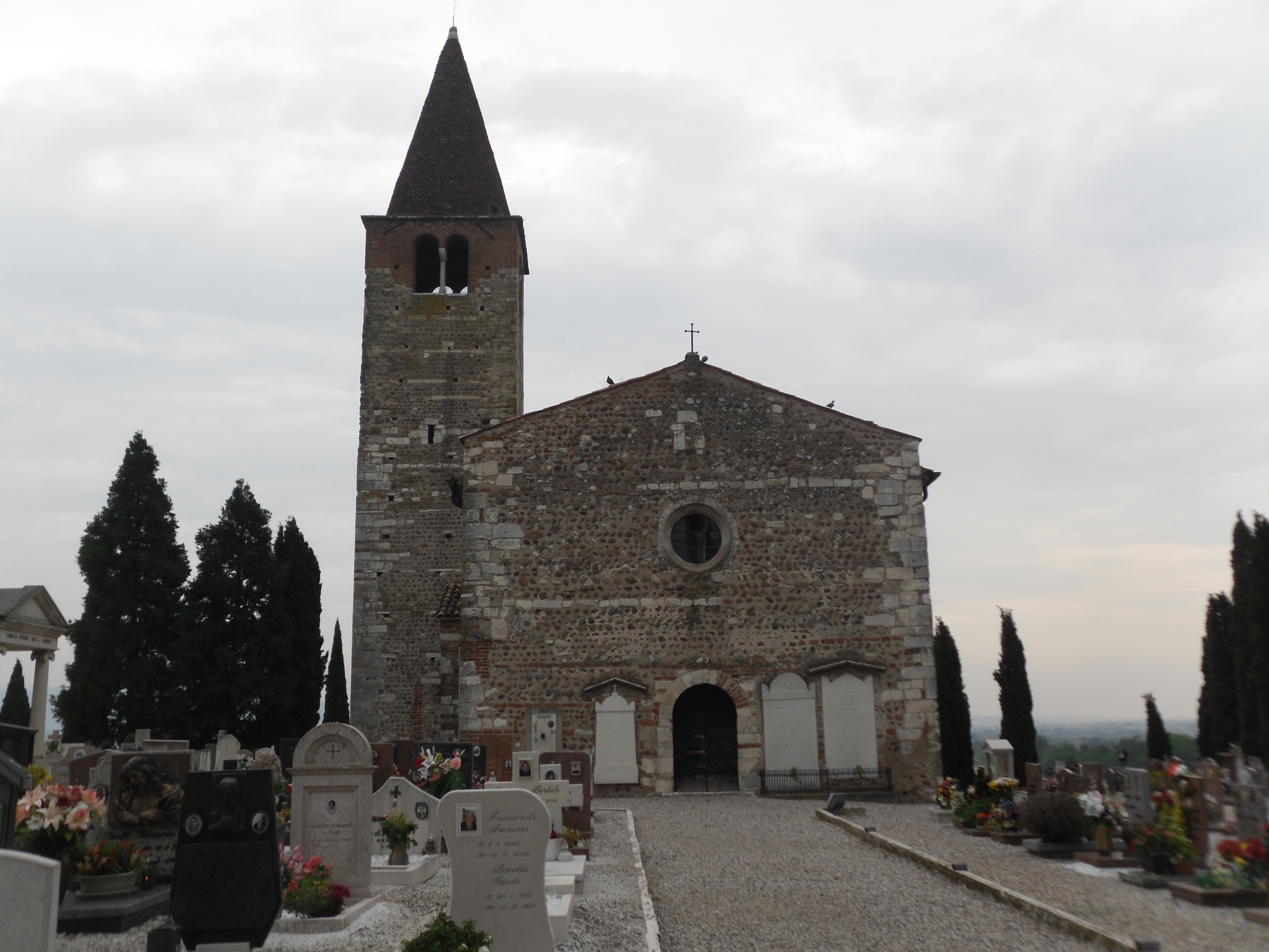 The Parish Church of Saint Justina of Padua in Palazzolo, Sona, Province of Verona, Italy.